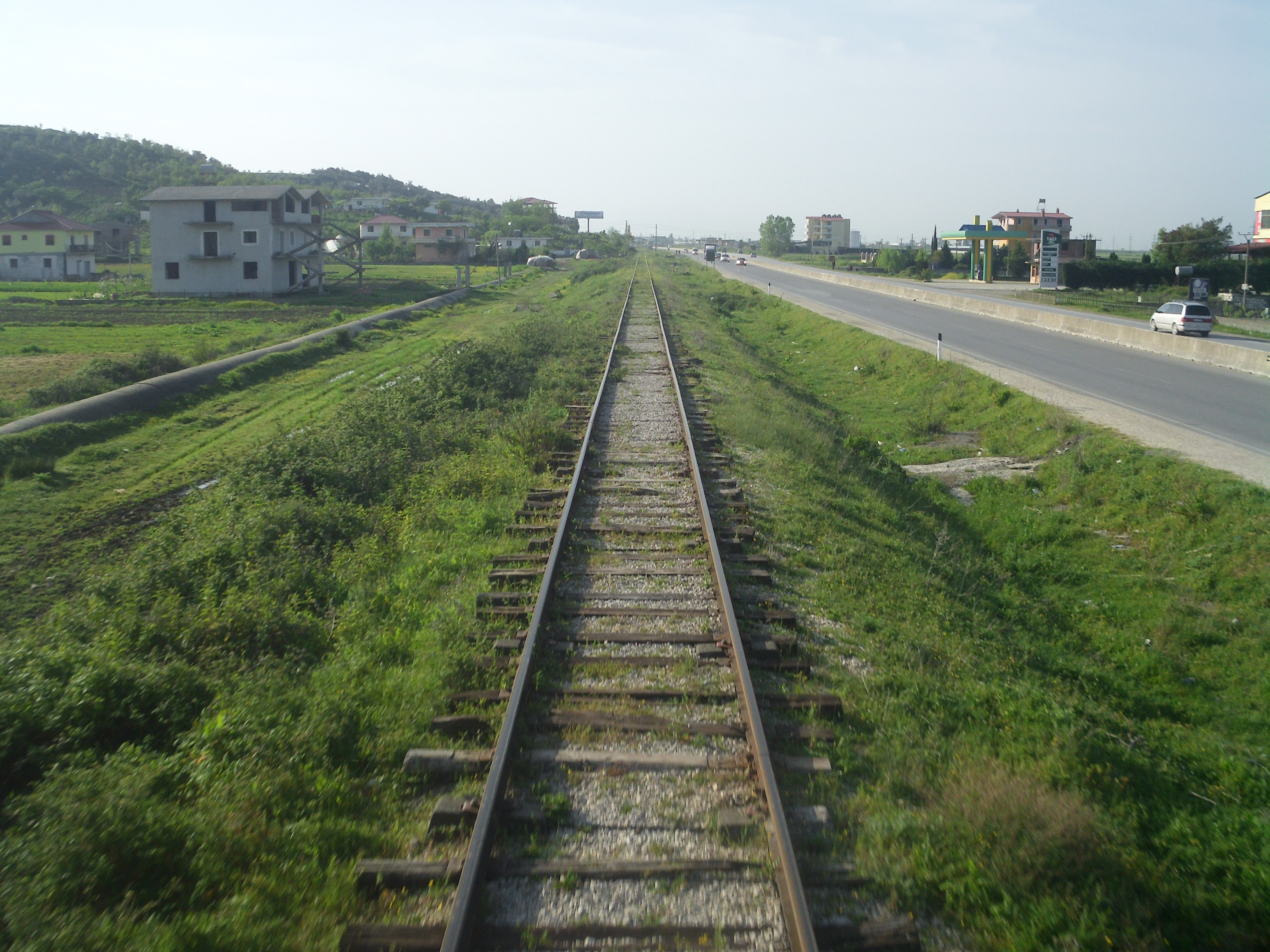 Rrogozhine-Vlora railway in Albania, somewhere between Libofsh and Gradisht station. Picture was taken from the back of a passenger train.